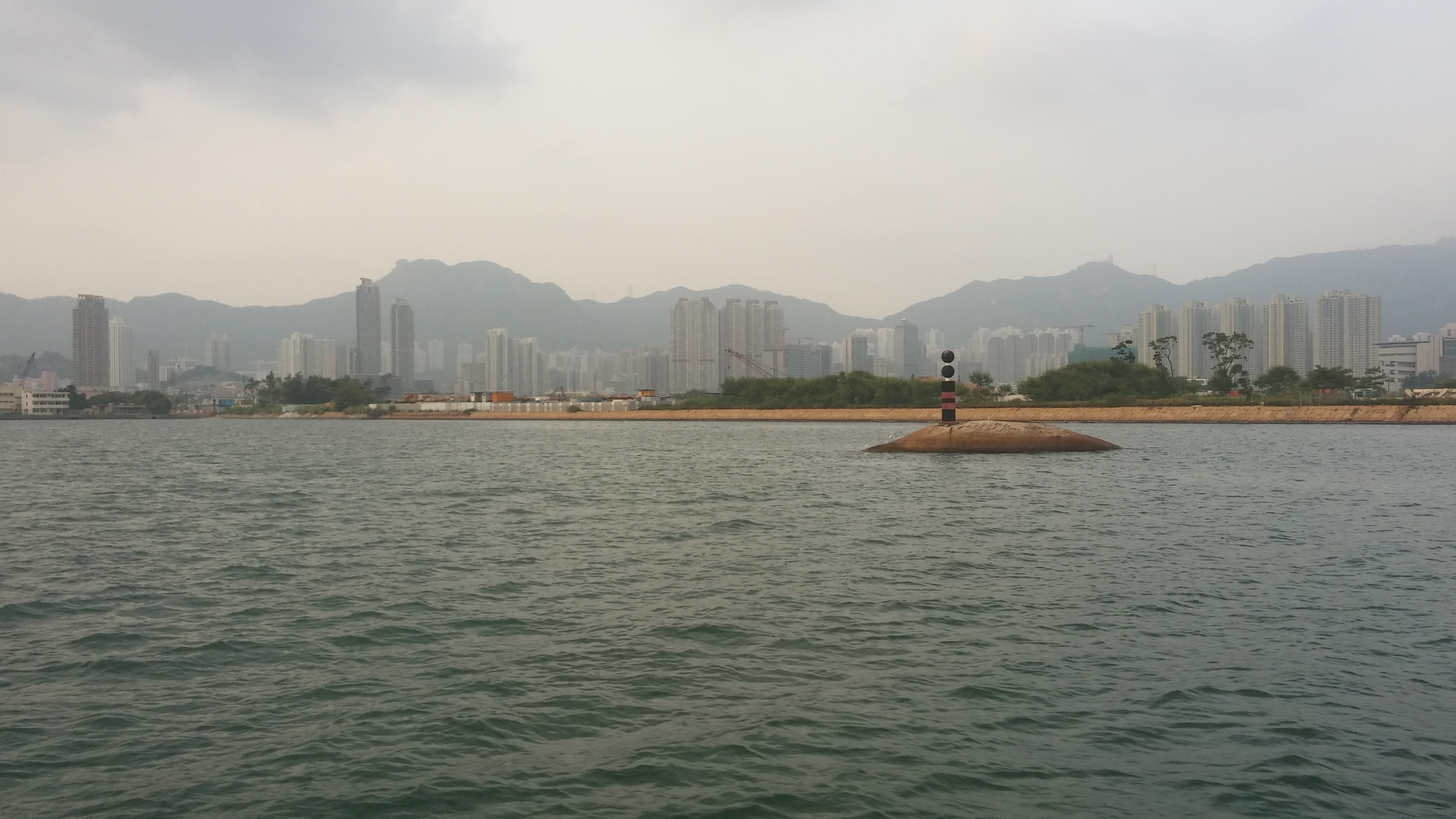 Kowloon Rock a small rock outcrop in Kowloon Bay is dubbed as the smallest island in Hong Kong